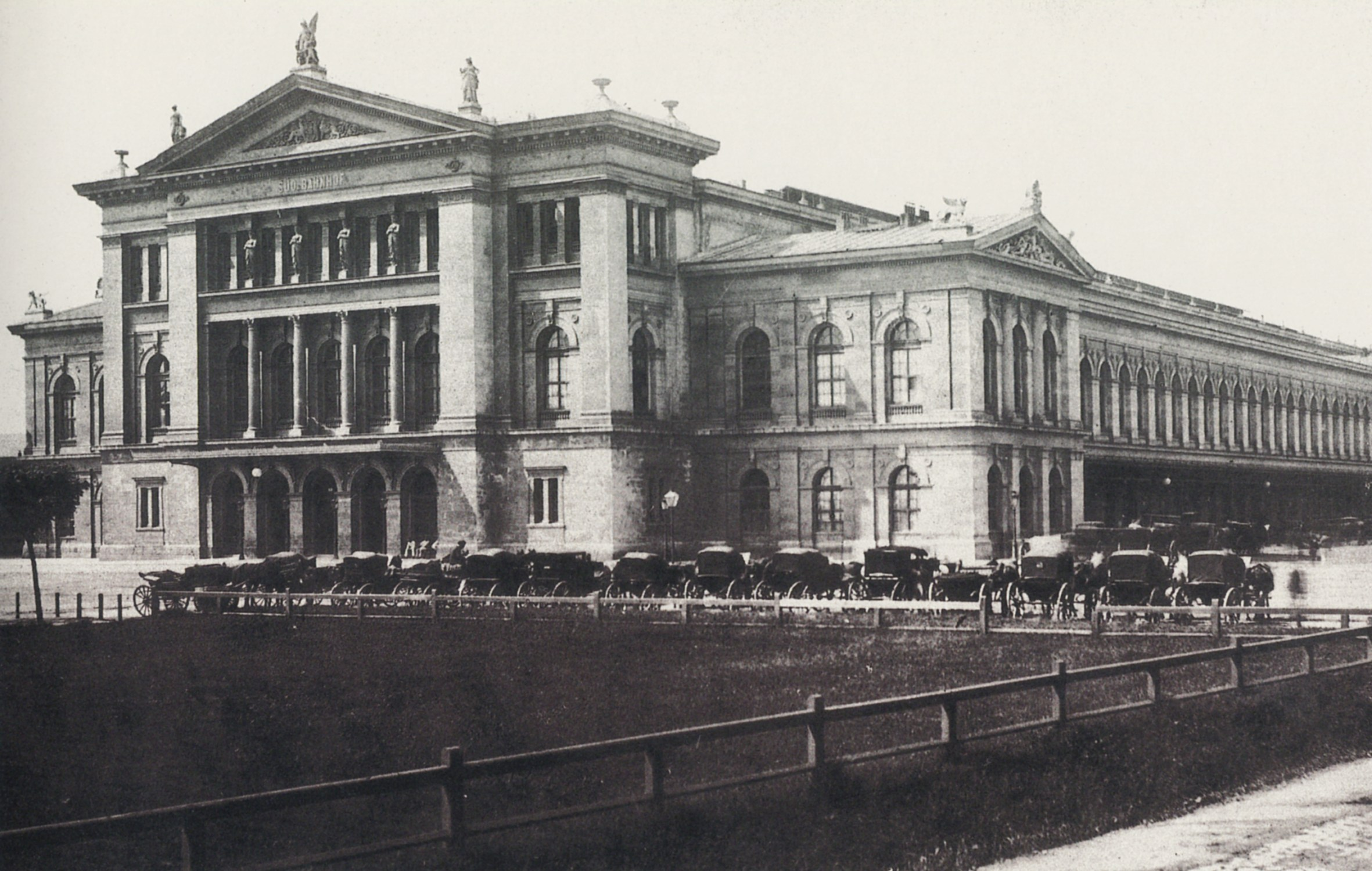 Old Südbahnhof (southern station) in Vienna, destroyed in WWII